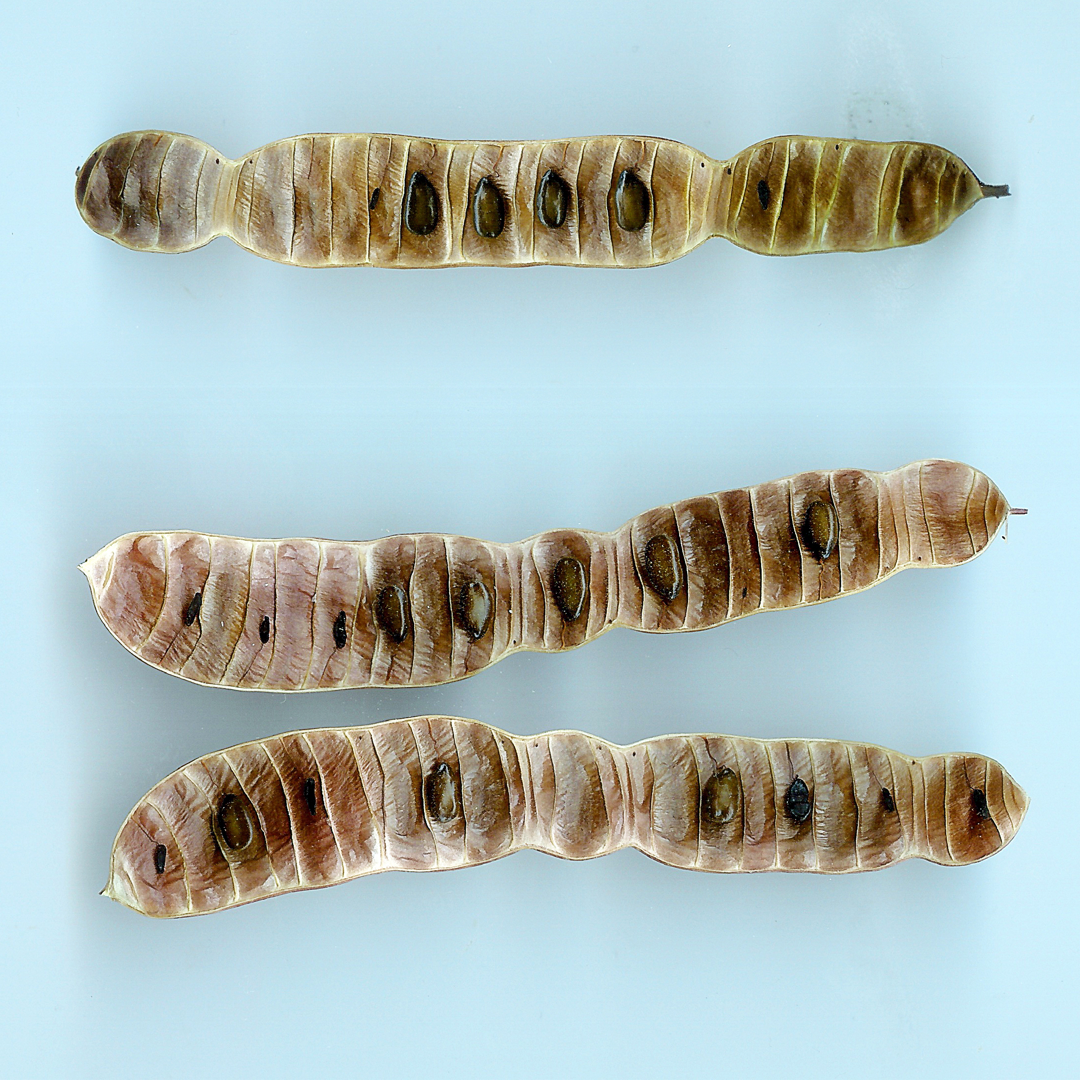 Senna surattensis legume opened